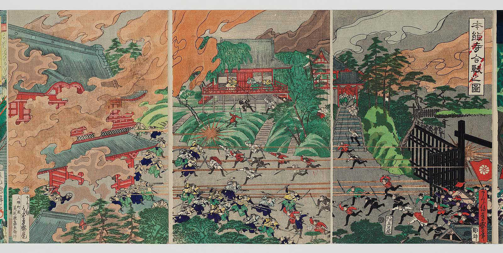 Shogitai of Tokugawa bakufu defeats Emperor's government.